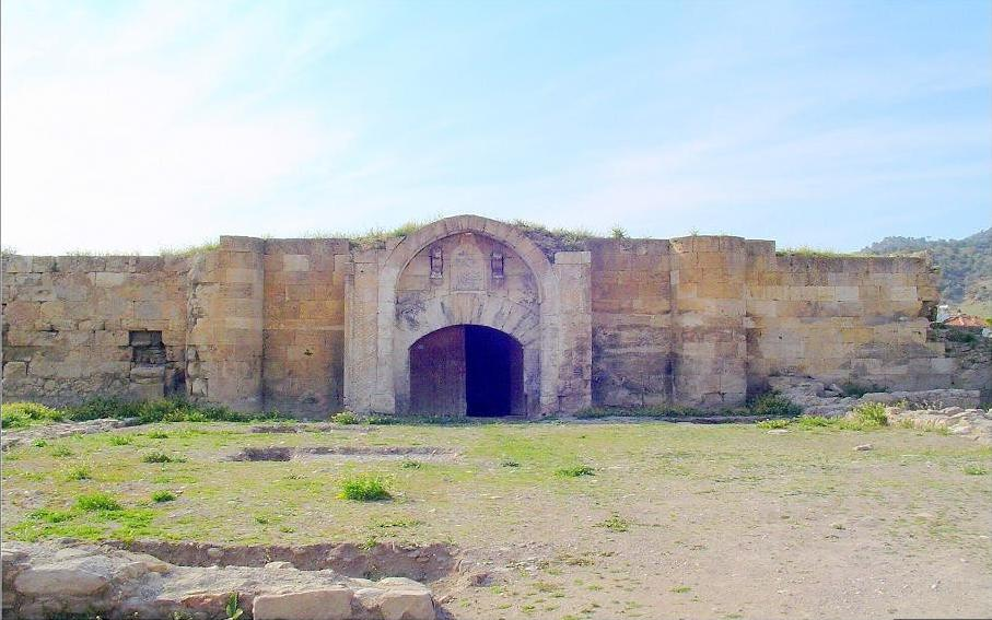 Hanabat Caravanserai in Çardak Source: Mr. Arif Solak - Creative Commons explained. Permission to upload his photos obtained by in-site messaging. Tabii ki izin veririm. Sizlere katkım olursa çok sevinirim. (Of course I give permission. I would be pleased to contribute.)